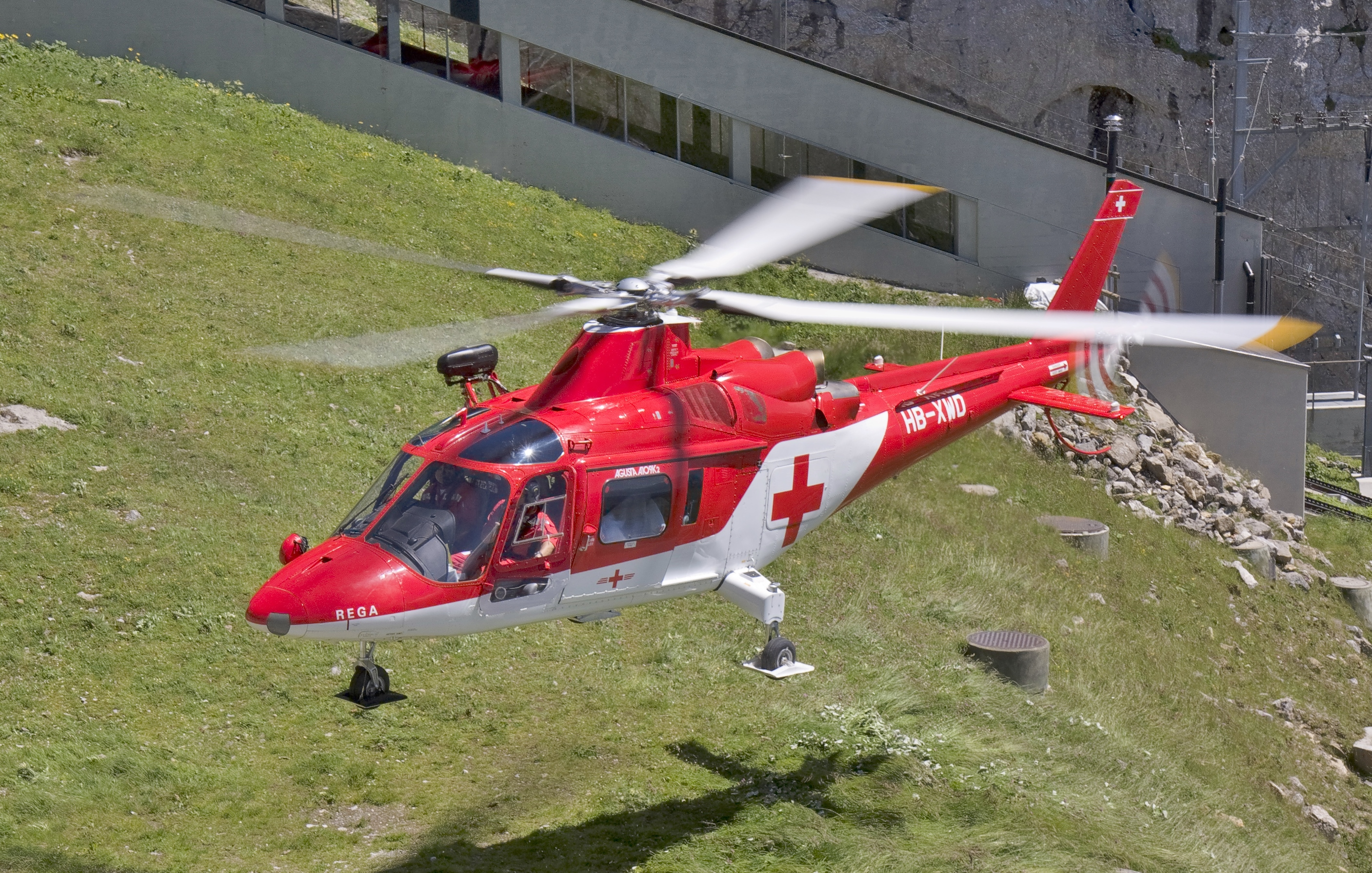 A rescue helicopter type Agusta A109K2 leaves mount Pilatus after having recovered a patient.